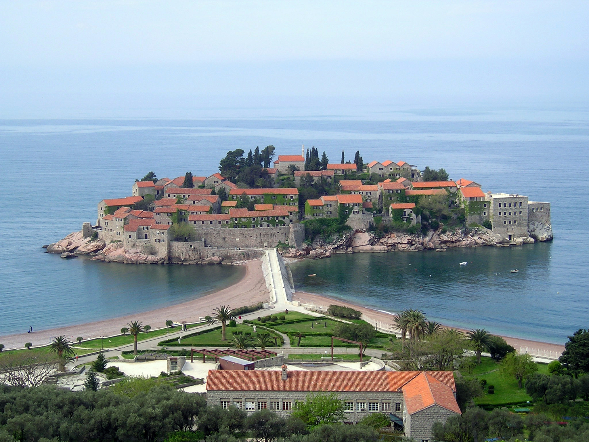 Sveti Stefan is a resort complex near Budva, Montenegro.